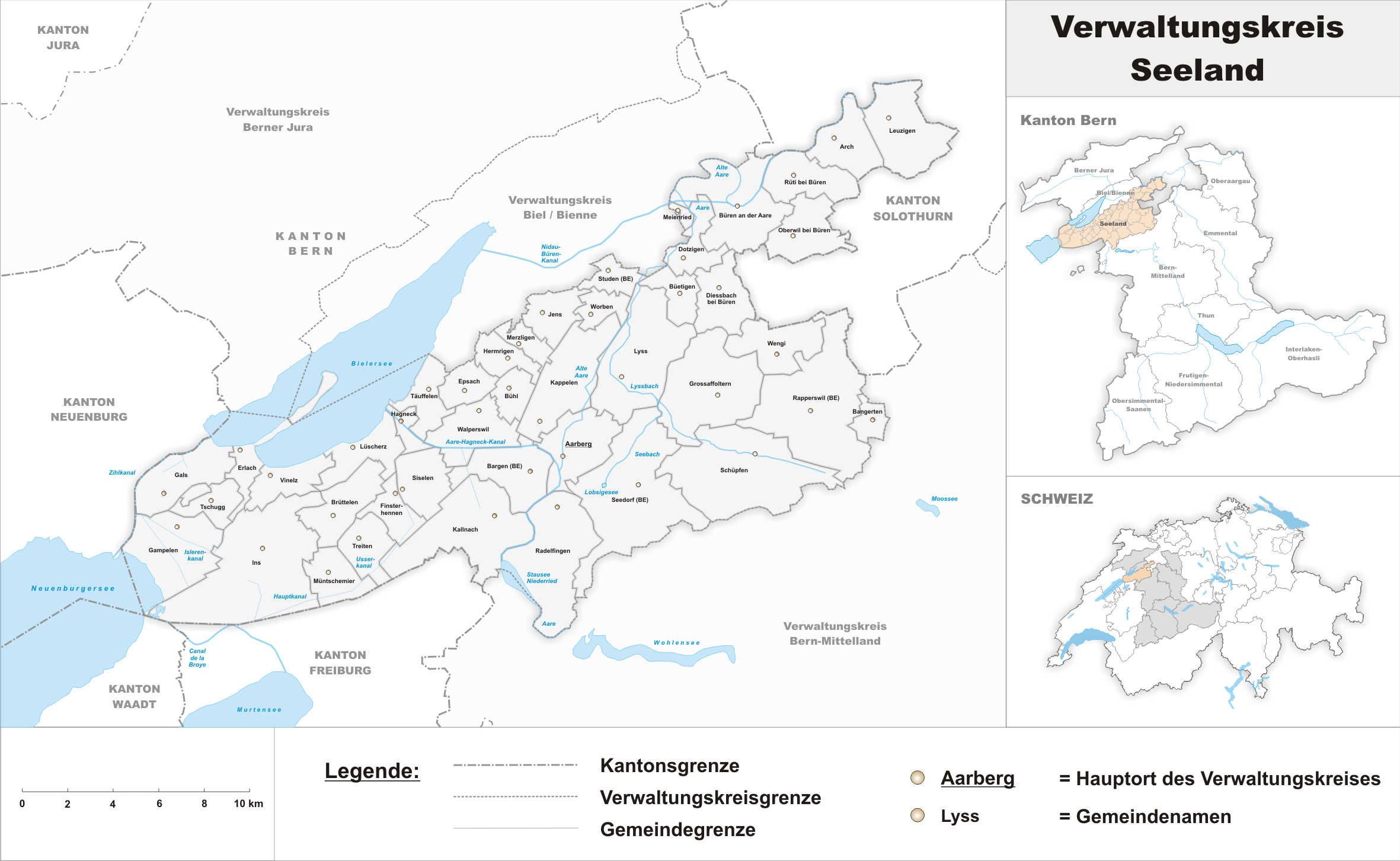 Municipality in the District of Seeland